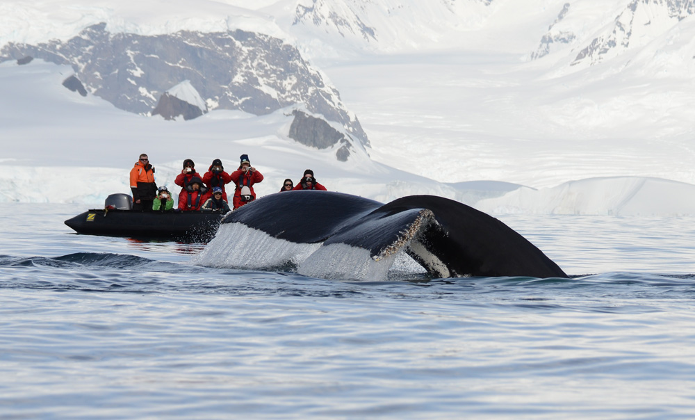 A tourist Zodiac watches a humpback whale in Wilhelmina Bay